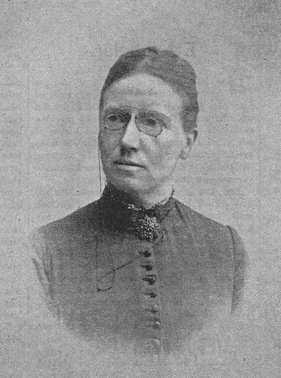 Swedish chemist Louise Hammarström (1849-1917)